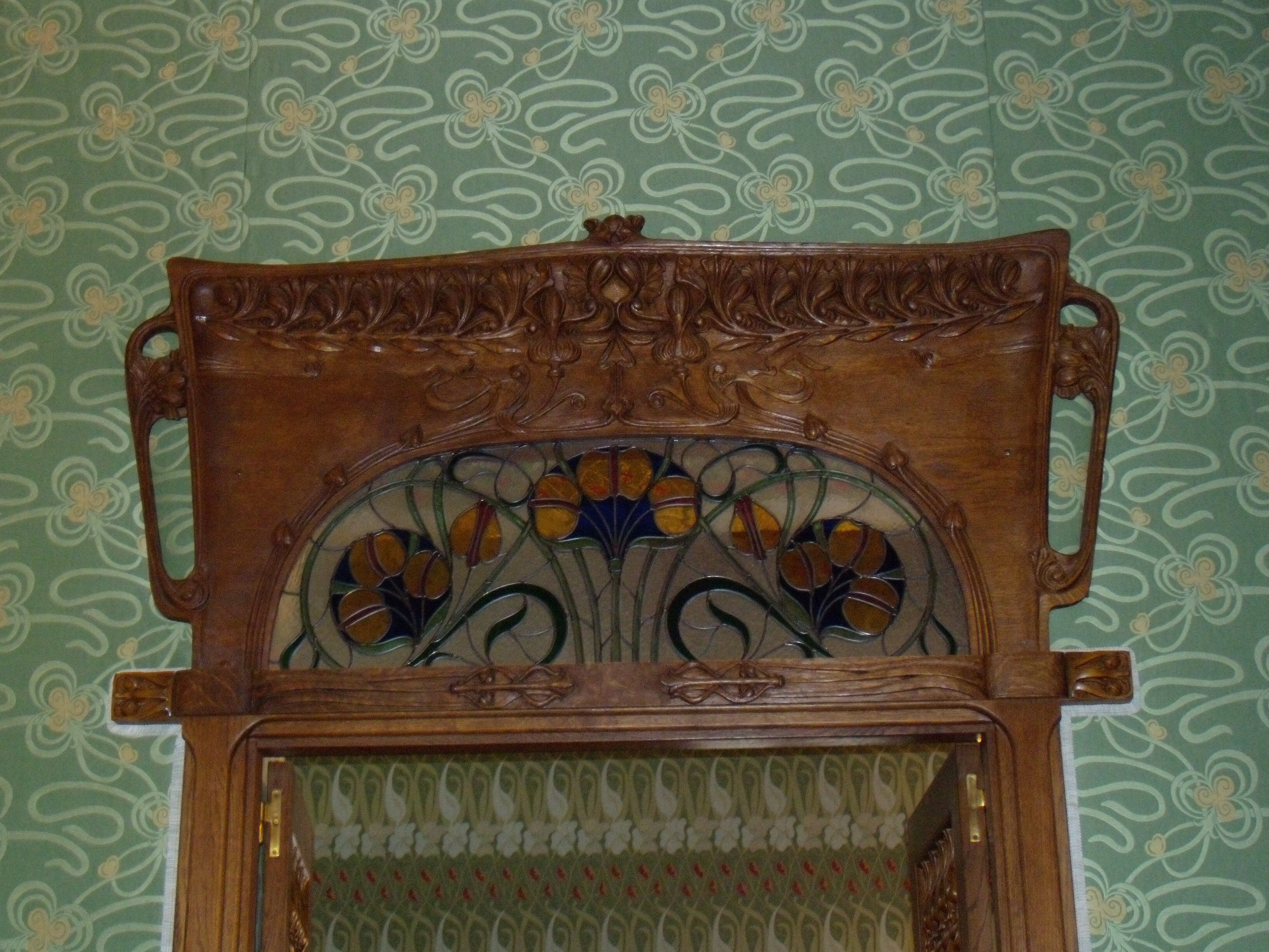 Entrance door of the living room, Villino Florio all'Olivuzza, Palermo, Italy